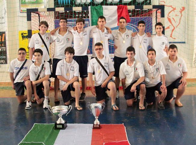 Junior Fasano Under 16